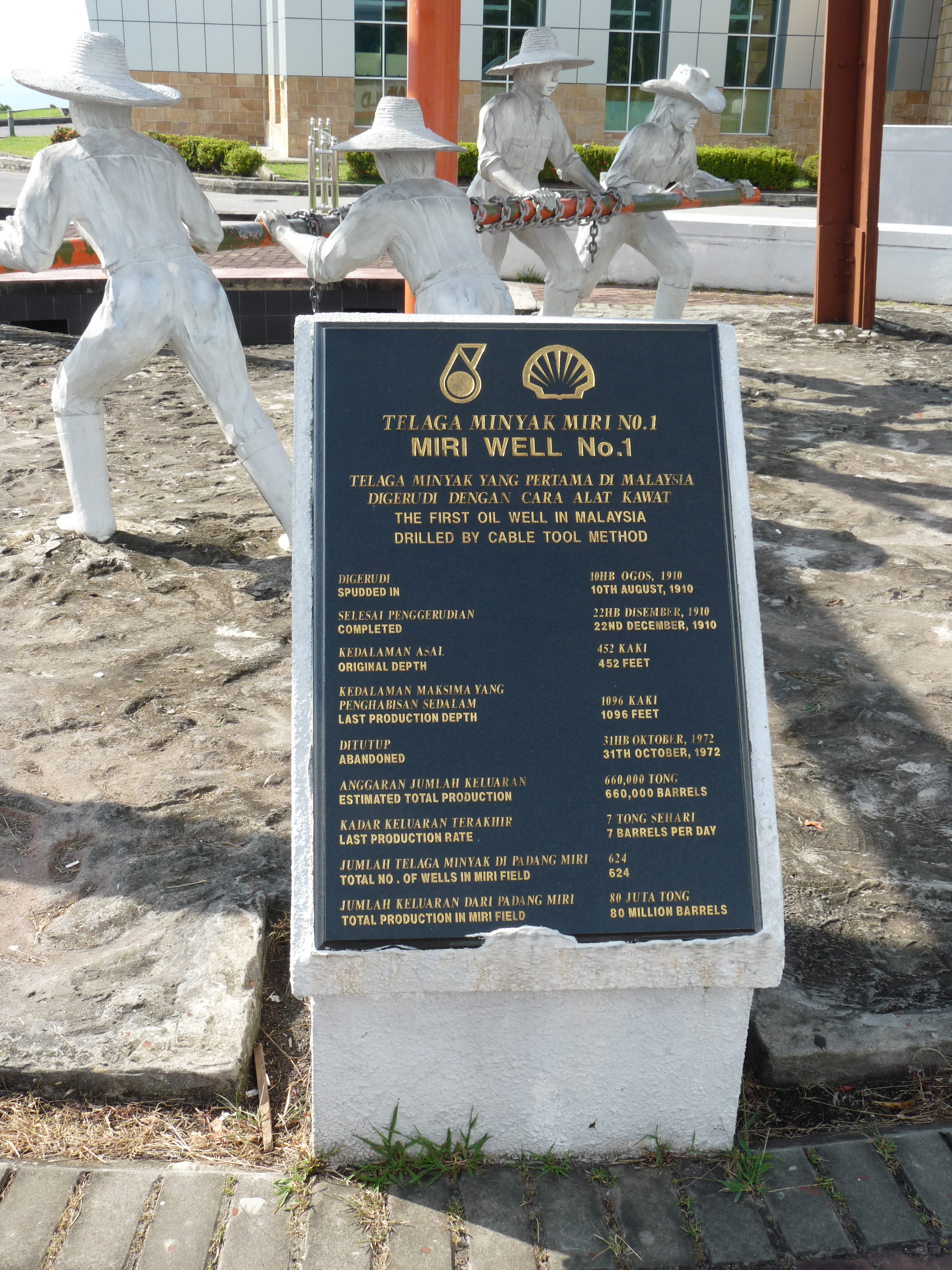 Plaque describing the caracteristics of the Grand Old Lady, the first successful oil well in Malaysia. It is situated on Canada Hill in Miri, Sarawak.